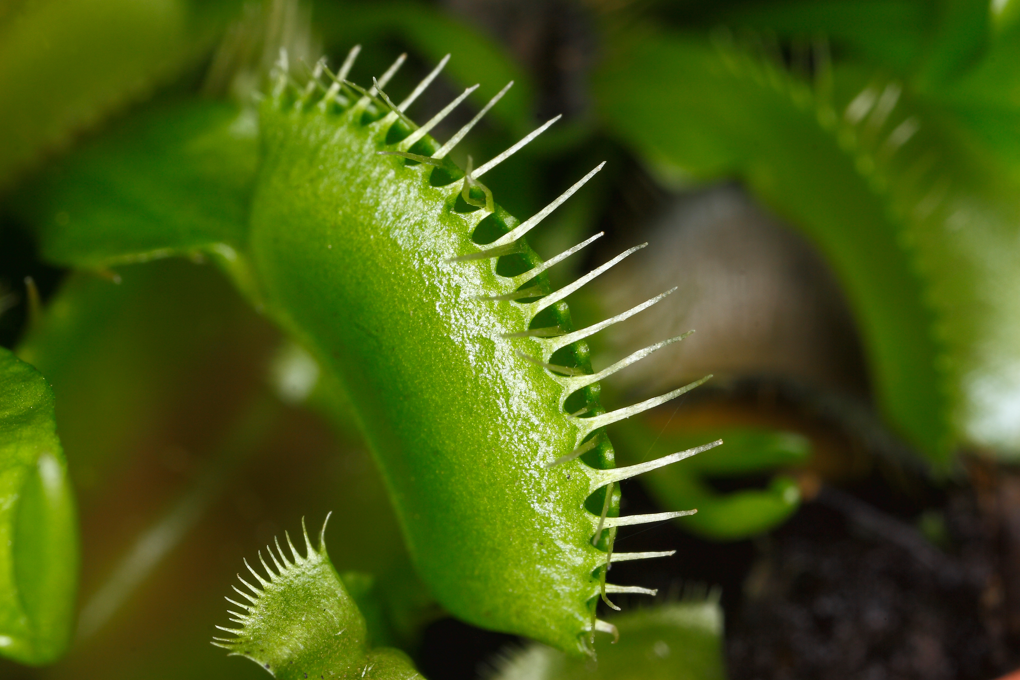 Closed cilia of Dionaea Muscipula forming a mesh around its prey.